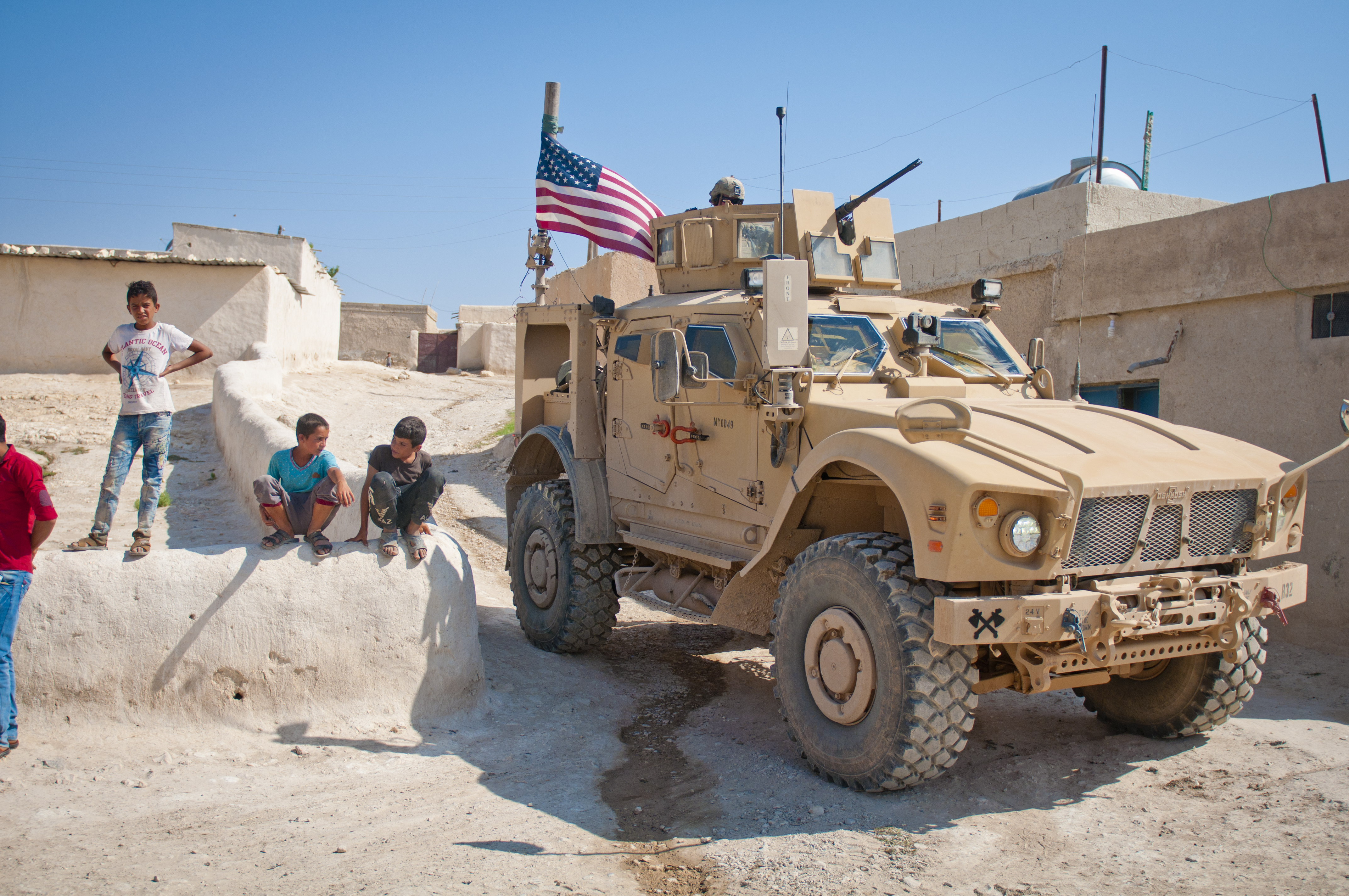 Children gather around a U.S. tactical vehicle during an independent, coordinated patrol with Turkish military forces along the demarcation line outside Manbij, Syria, July 14, 2018.